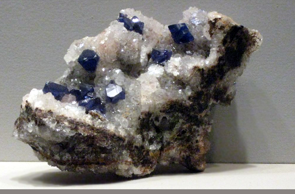 Scorodite, FeAsO4*2H2O Zacatecas, Mexico